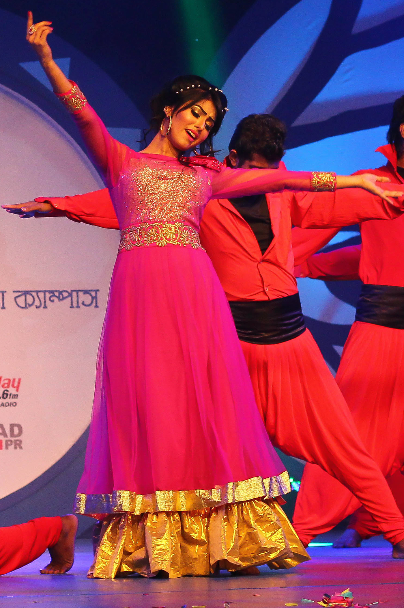 Anika Kabir Shokh is performing in Radisson Blu Water Garden Hotel Dhaka, Bangladesh. Crpped from original upload.